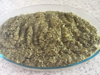 Prato Angolano